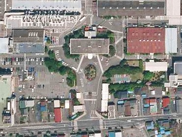 Subaru Gunma Manufacturing Division Main Plant main building.